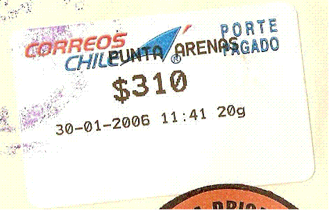 Variable value stamp, pre-paid postage